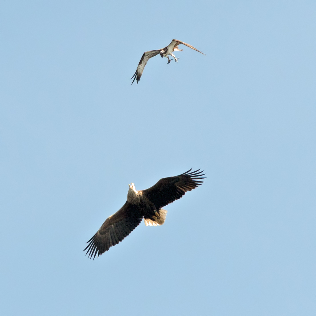 Havsörn, White-tailed eagle, Haliaetus albicilla and Fiskgjuse, Osprey, Pandion haliaetus, Vaxholm, Stockholm, Sweden